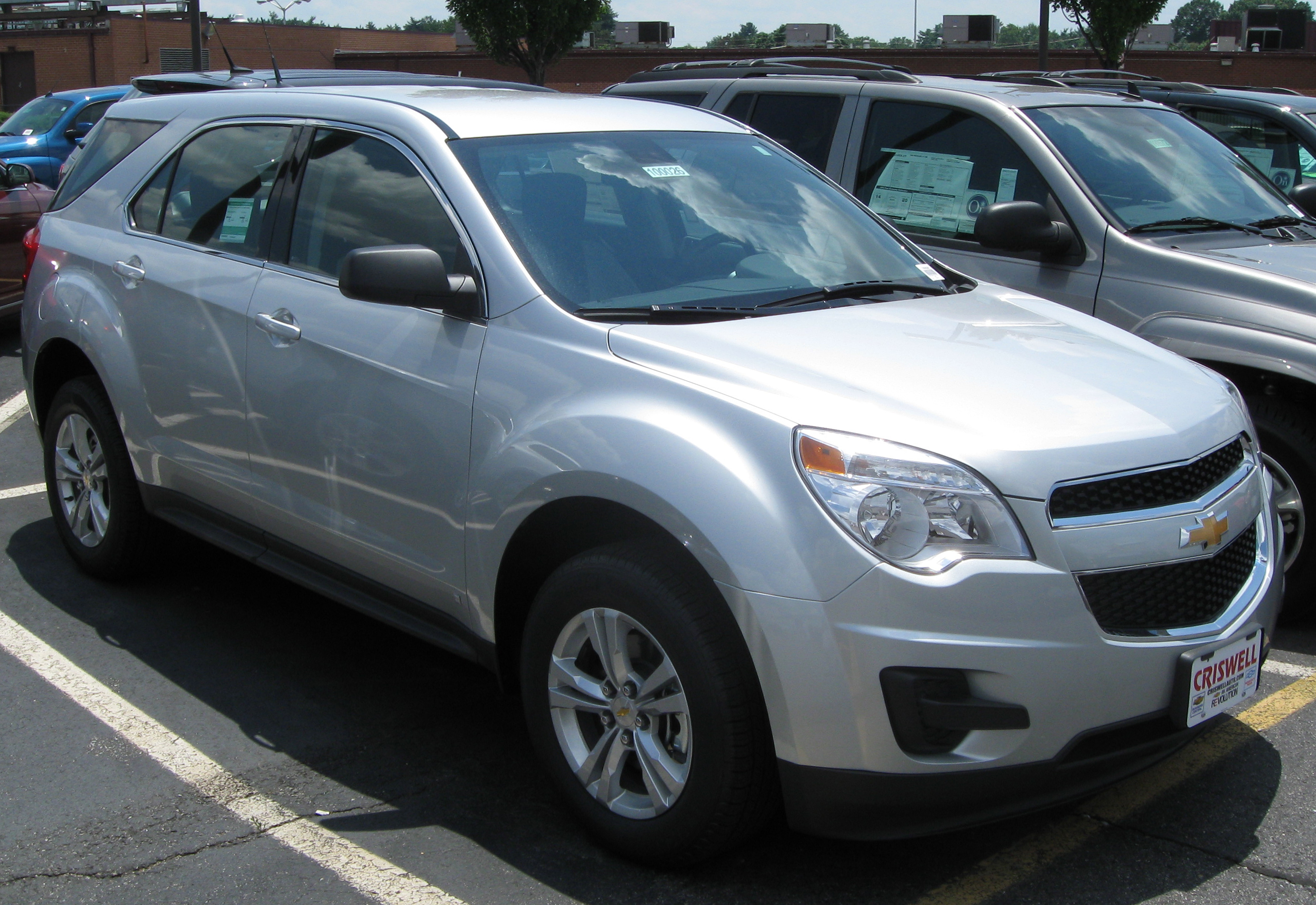 2010 Chevrolet Equinox photographed in Gaithersburg, Maryland, USA.